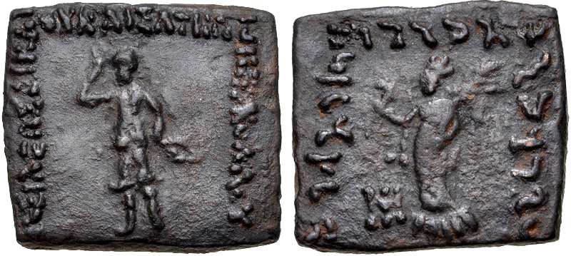 Peukolaos Soter Dikaios. Circa 75 BCE